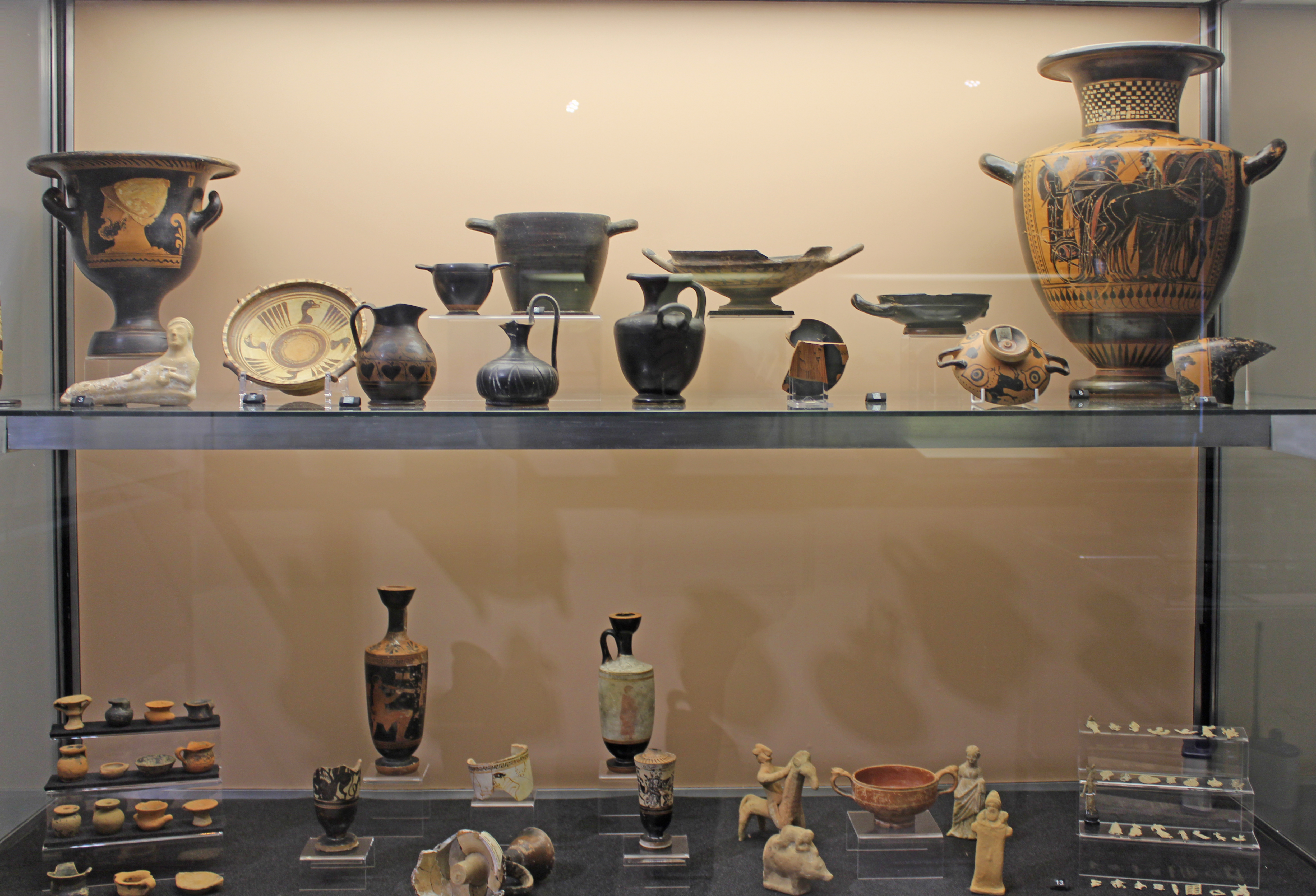 Votive offerings to the gods from the temple of Artemis Orthia, Sparta.